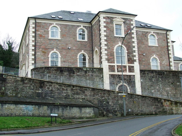 Newark Church Building An imposing building on Glen Avenue, now converted to flats after many years of deriliction. The nearby manse has also been converted to flats 337521.